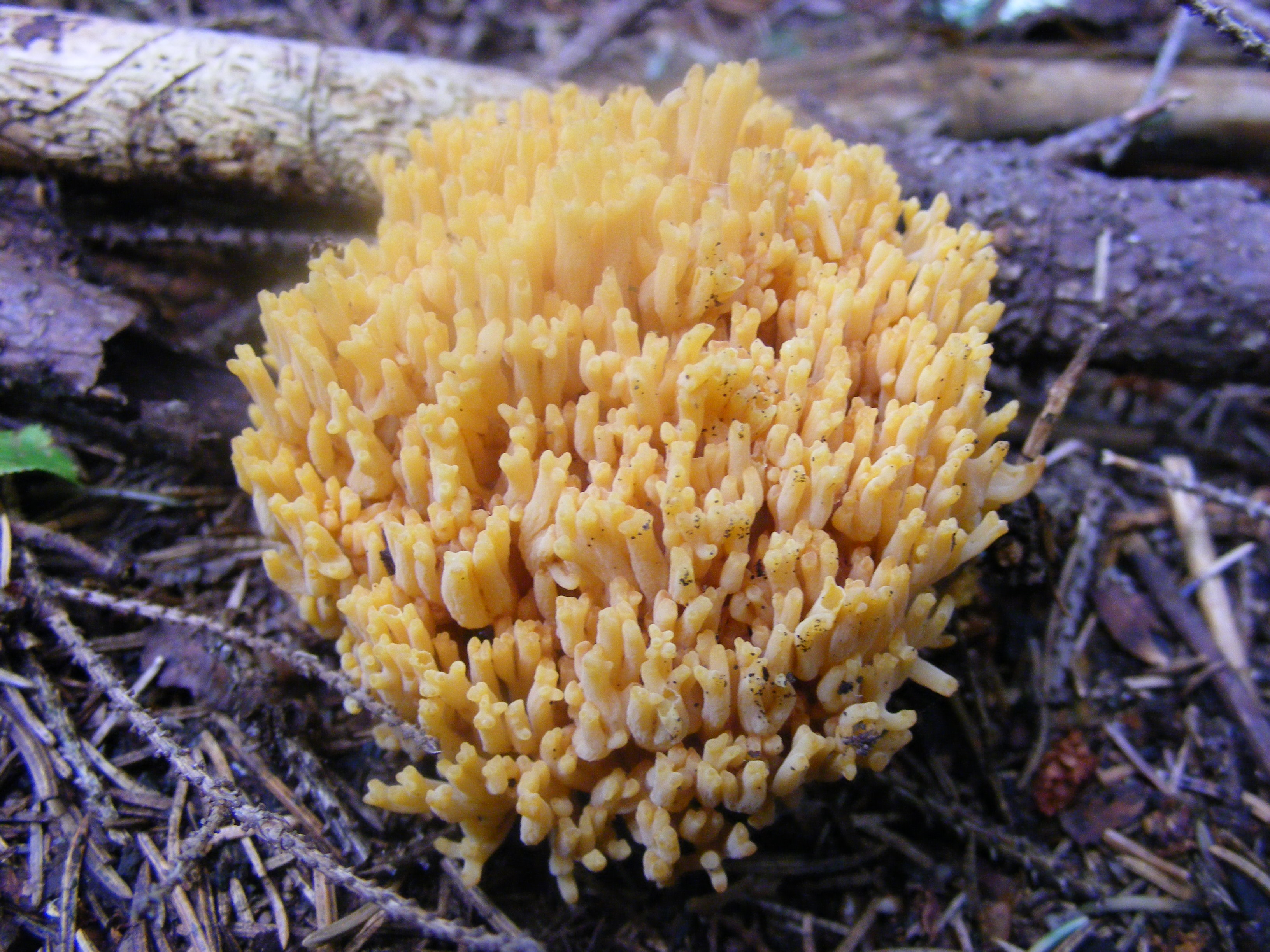 Ramaria flava